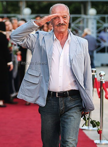 Saeed Rad, Iranian actor at 16th Hafez Awards.